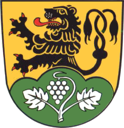 Coat of Arms of Gompertshausen